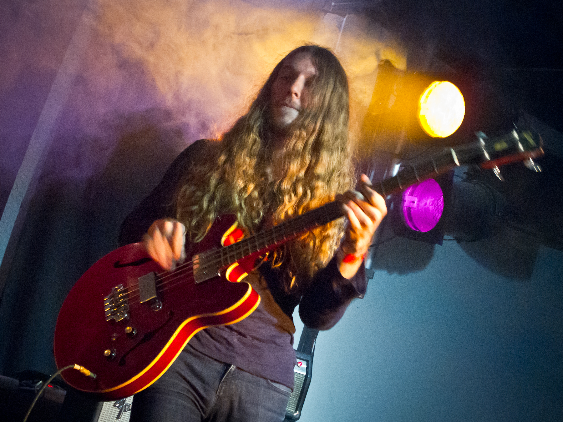 Blues Pills' bassist Zack Anderson live in Madrid in 2014.